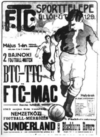 Advertising poster on FTC-Magyar AC match, 1913